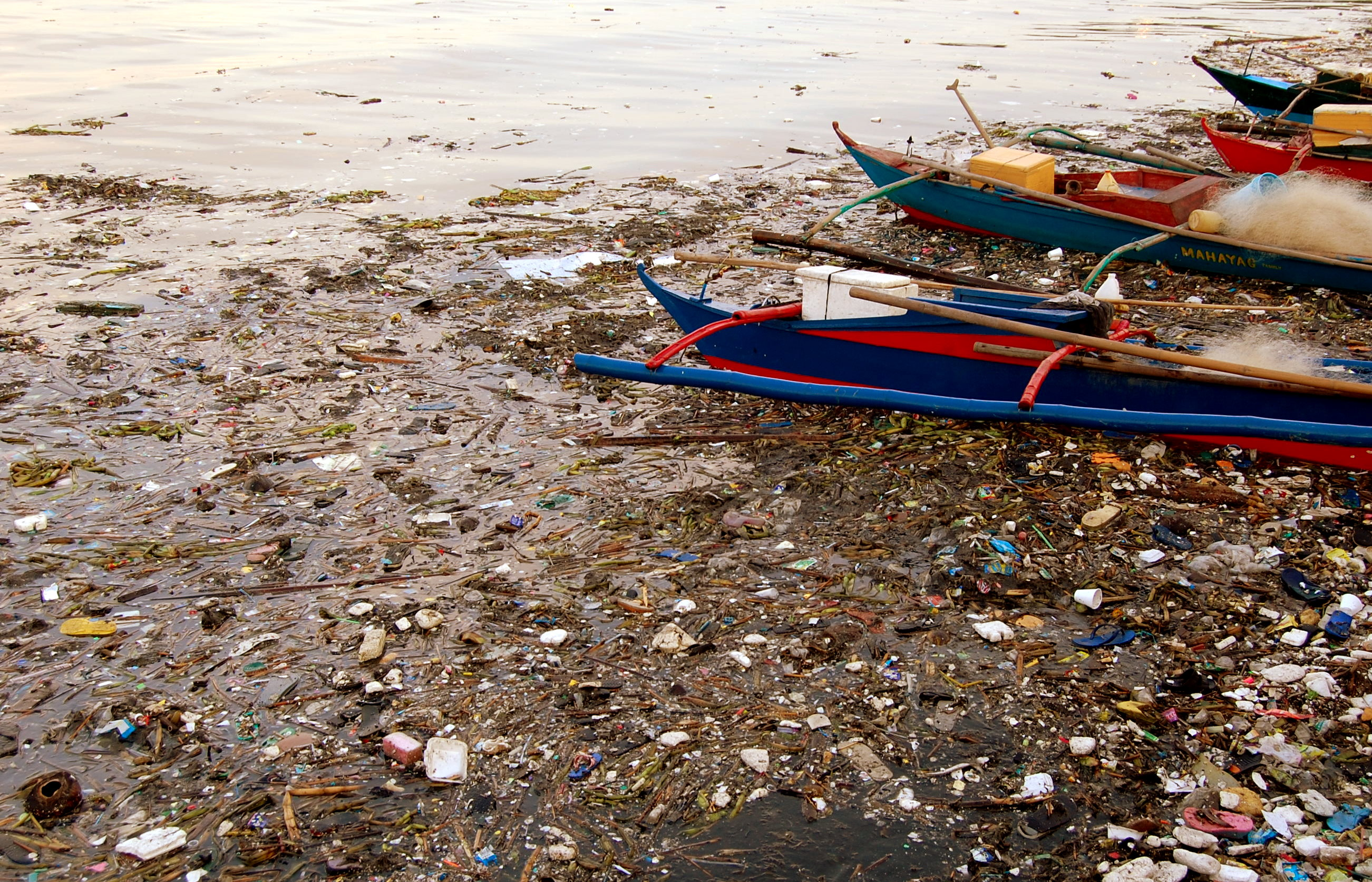 Manila Bay is acknowledged to one of the finest natural harbors in the world and the best in the Eastern Asia region. It lays claim as the place where the most beautiful sunset in the world can be viewed. Manila Bay is also the catchment area of the Pasig and Pampanga River Basins whose organic pollution load from the ever growing urban centers have also earned it the distinction of being the biggest sewer in the world. Nikon D40 (May 2008)